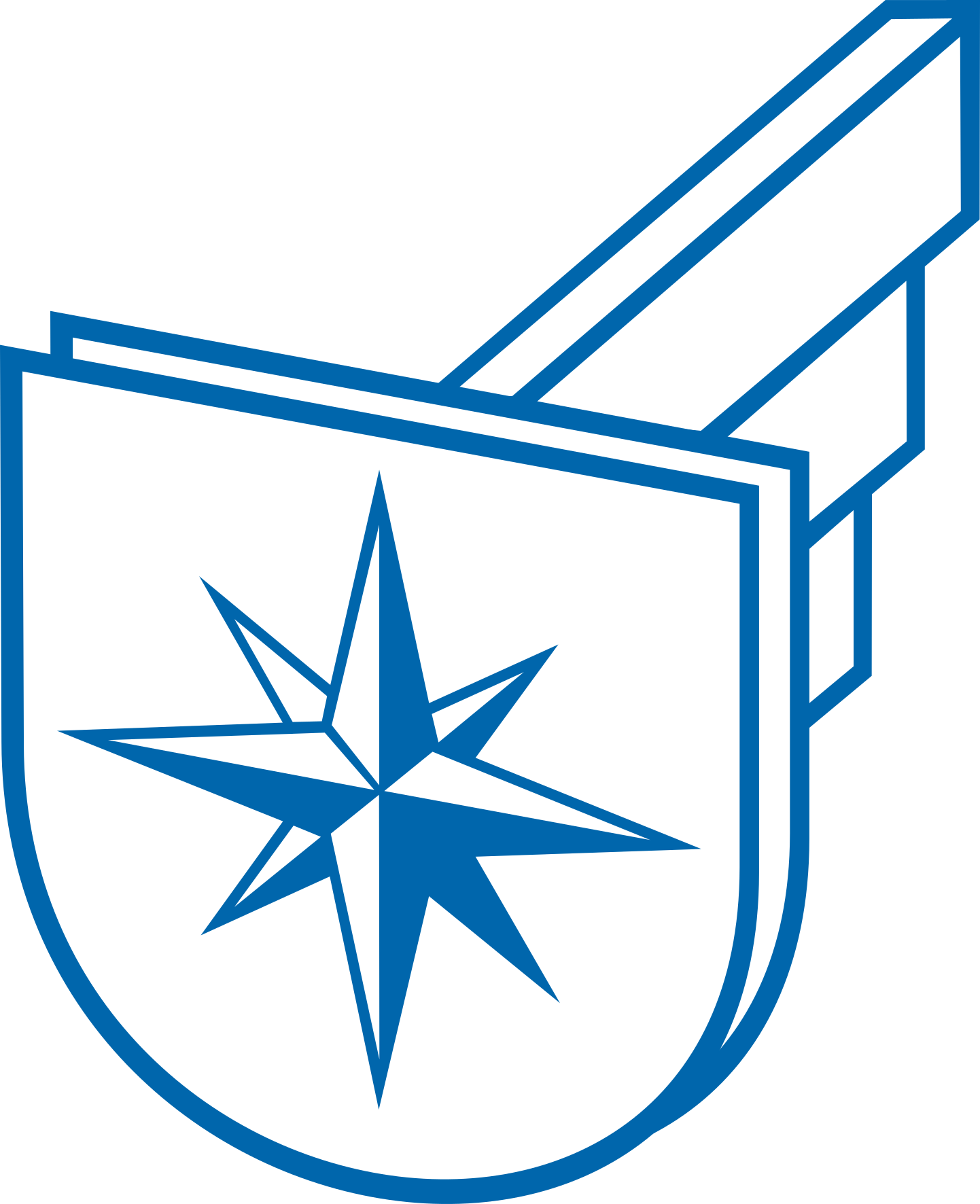 mikrotechna praha logo